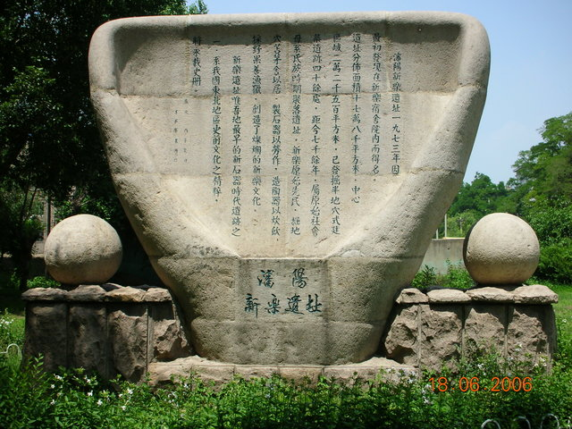 Xinle neolithic site main entrance, Shenyang, China 瀋陽新樂遺址正門